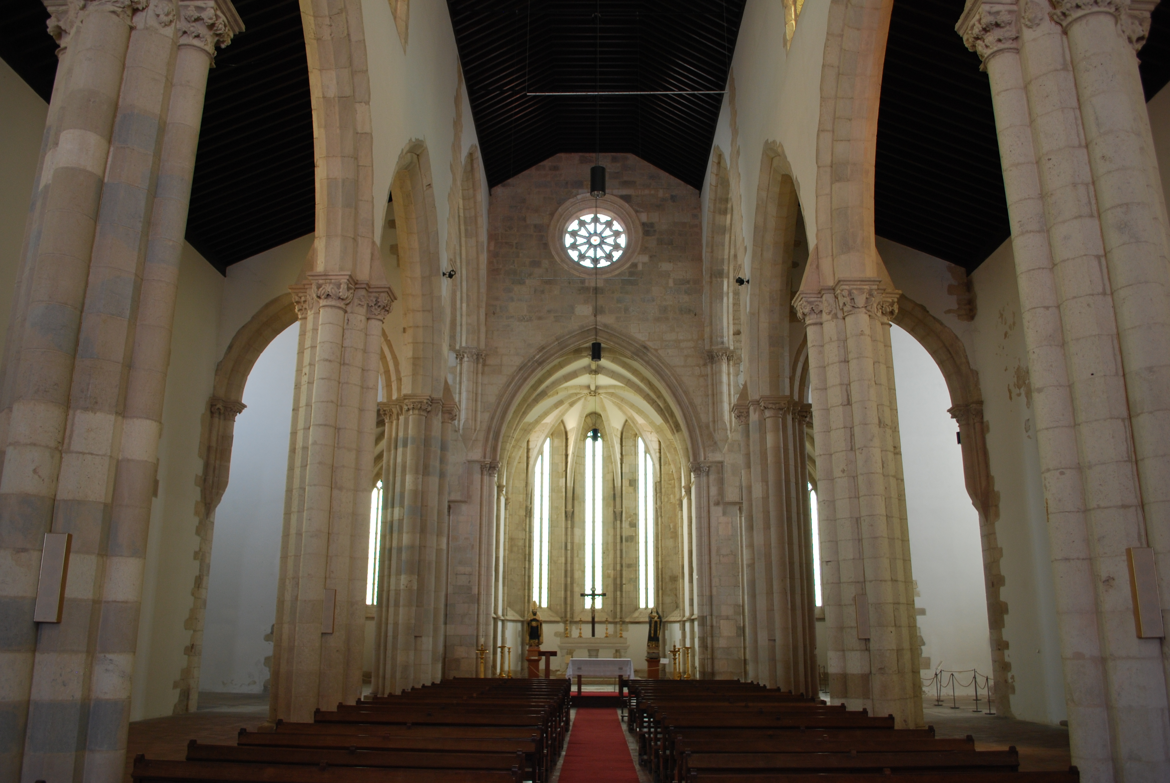 This file was uploaded for Wiki Loves Monuments in Portugal with the unique identifier 70431.